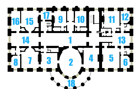 Floor plan of the White House second floor.